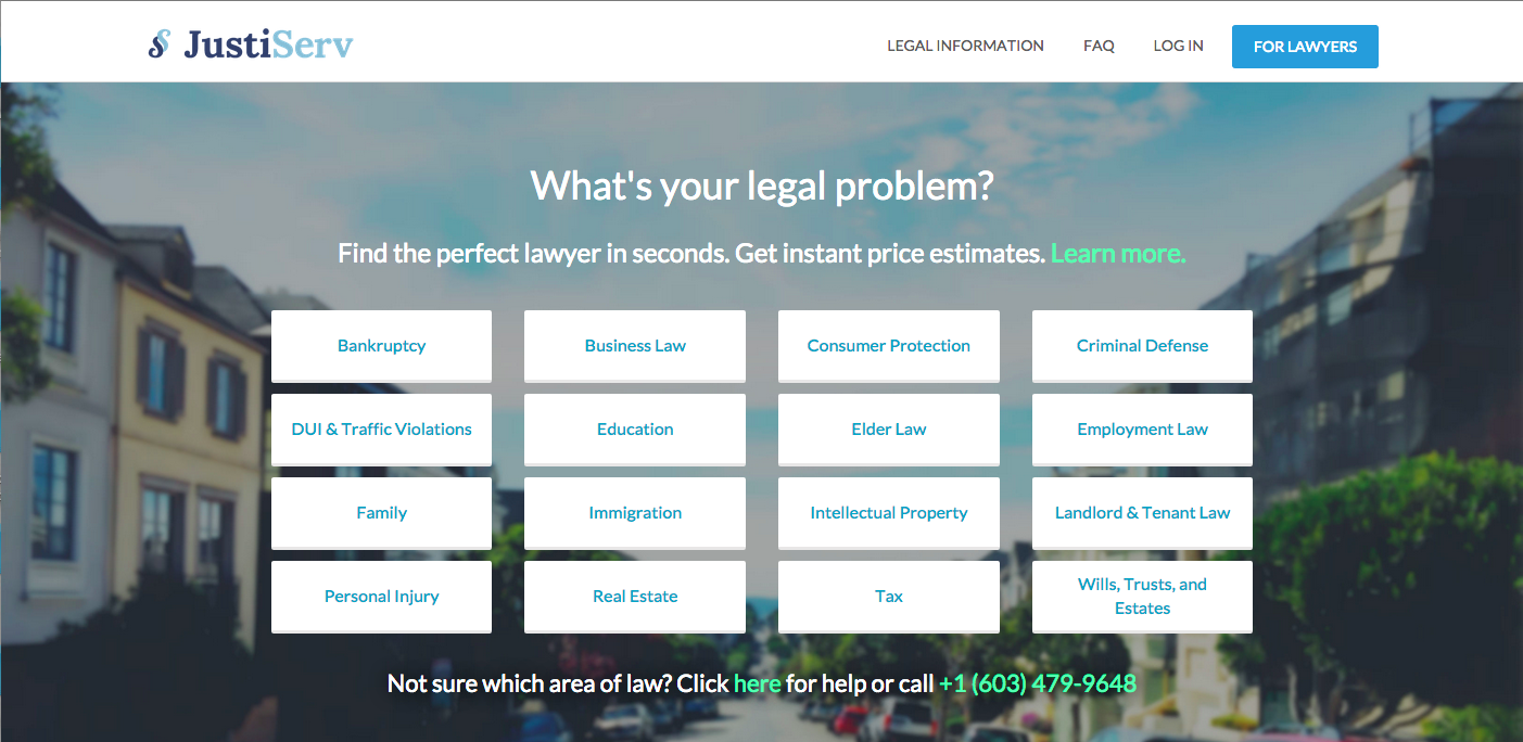 This is the homepage of